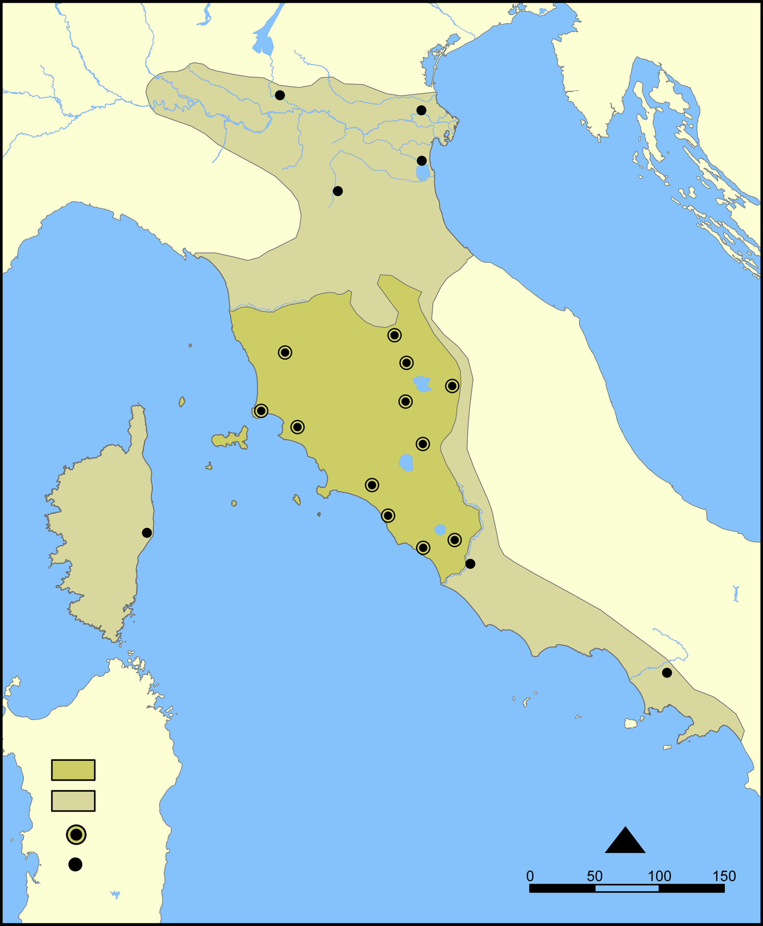 This is a blank version showing the extent of Etruria and the Etruscan civilization. The map includes the 12 cities of the Etruscan League and notable cities founded by the Etruscans. Feel free to label this image for use in the other language version of Wikipedia.